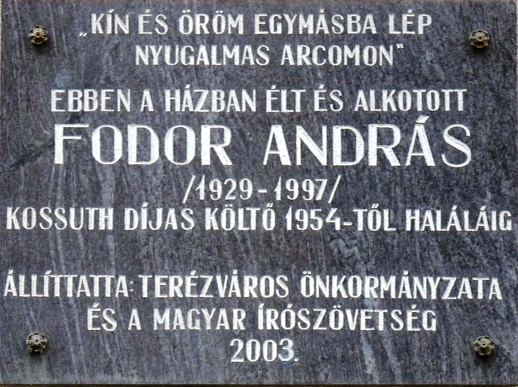 András Fodor (poet) commemorative plaque in Budapest District VI, Révay Passage No 4.